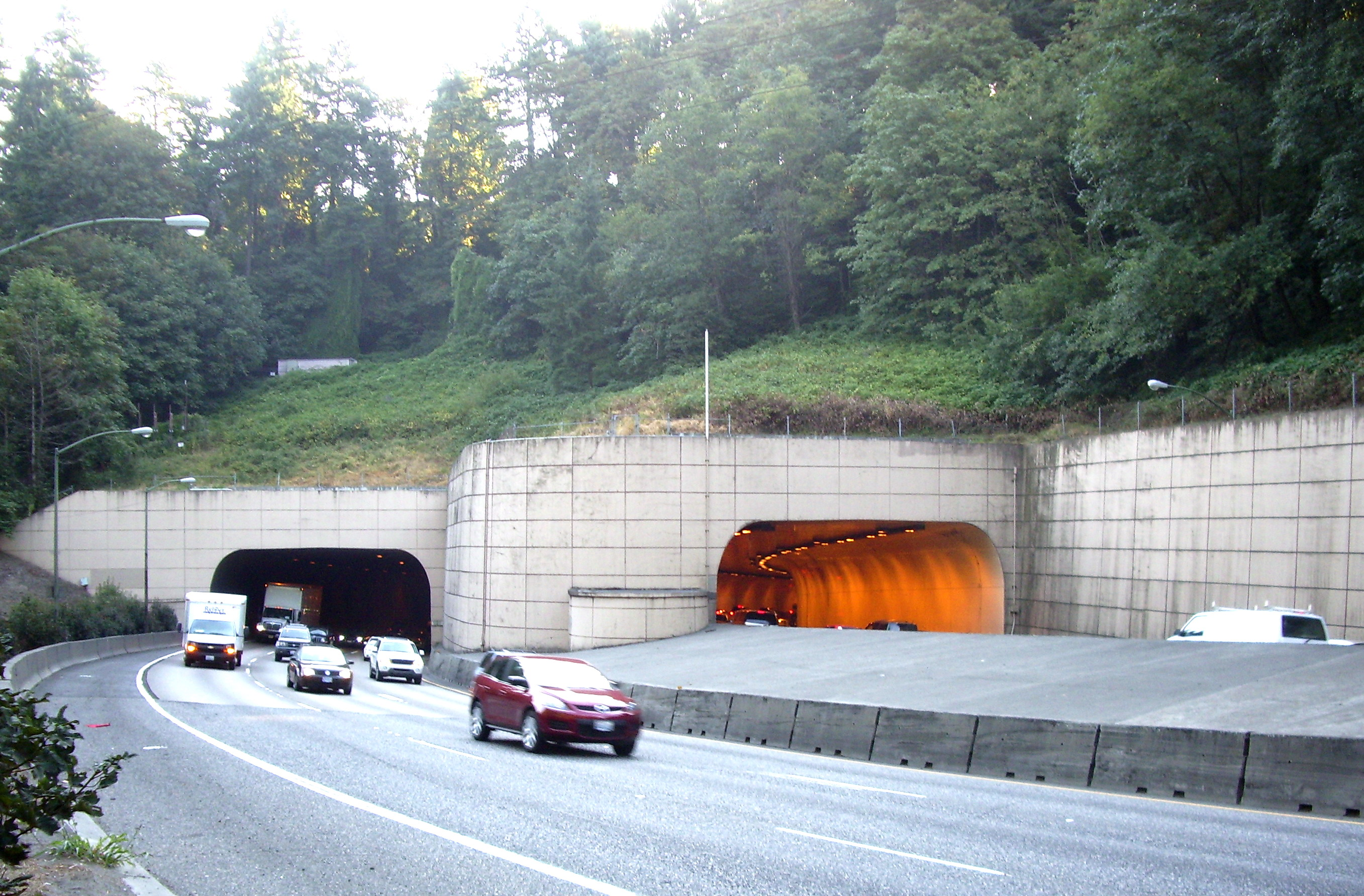 The west end of the Vista Ridge Tunnels carries Sunset Highway through Vista Ridge, a small portion of the Tualatin Mountains in Portland. The road slopes steeply downhill to downtown Portland, and is noticeably banked for the curve. (The internal (exif) time stamp is in error; the photo was taken 08:30 -0700 on 2007-08-16.)